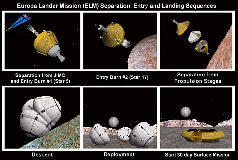 Europa Lander Mission launched from JIMO spacecraft and dropped on Europa surface